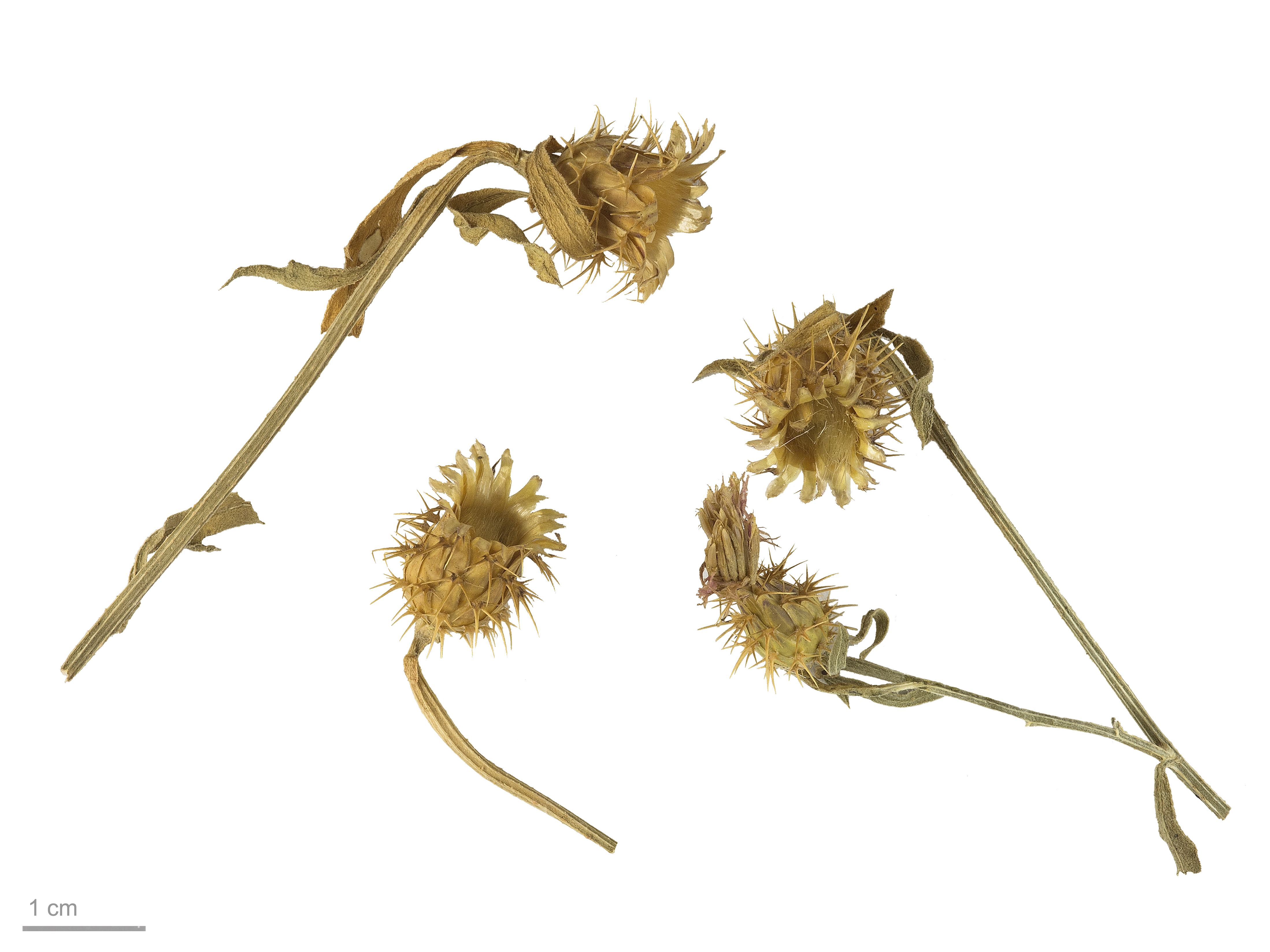 dried synflorescences